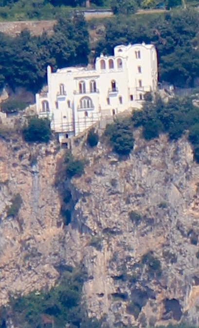 "La Rondinaia" in Ravello on the Amalfi Coast. This villa was owned by Gore Vidal 1972–2006.